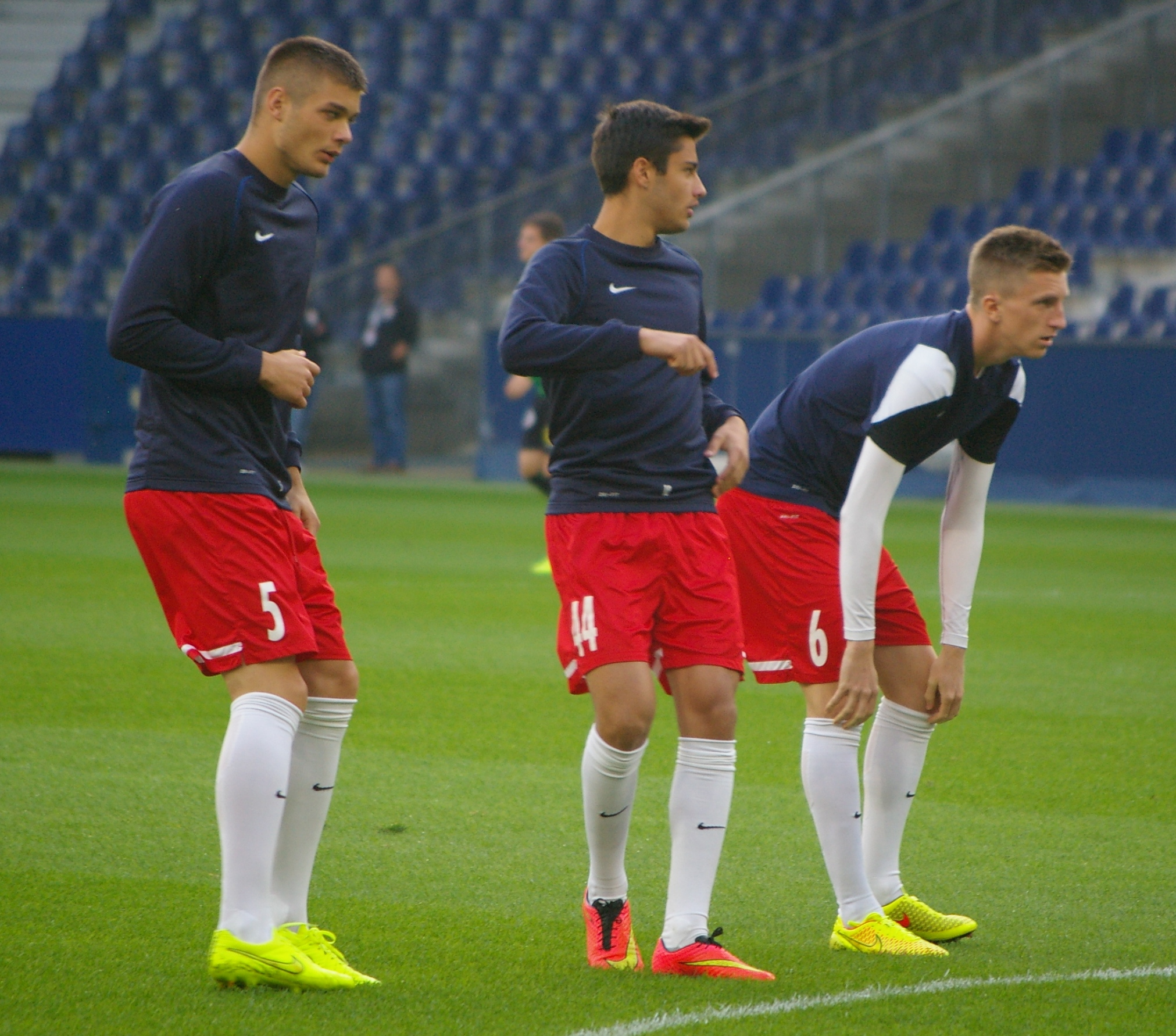 League match Austria 2nd league